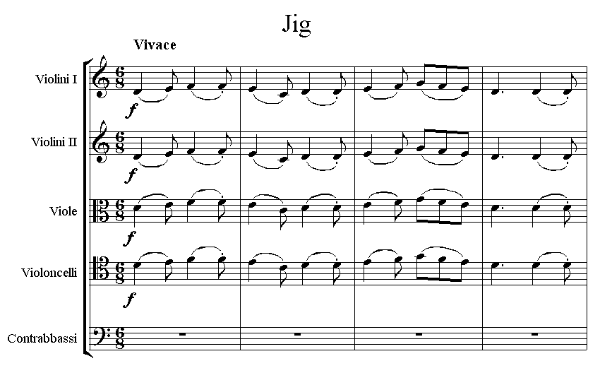 Gustav Holst's St Paul's Suite. Incipit of the first movement.